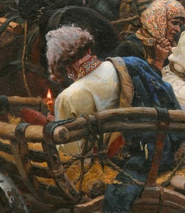 Detail of the painting "Morning of streltsy's beheading" by Vasily Surikov (1881)